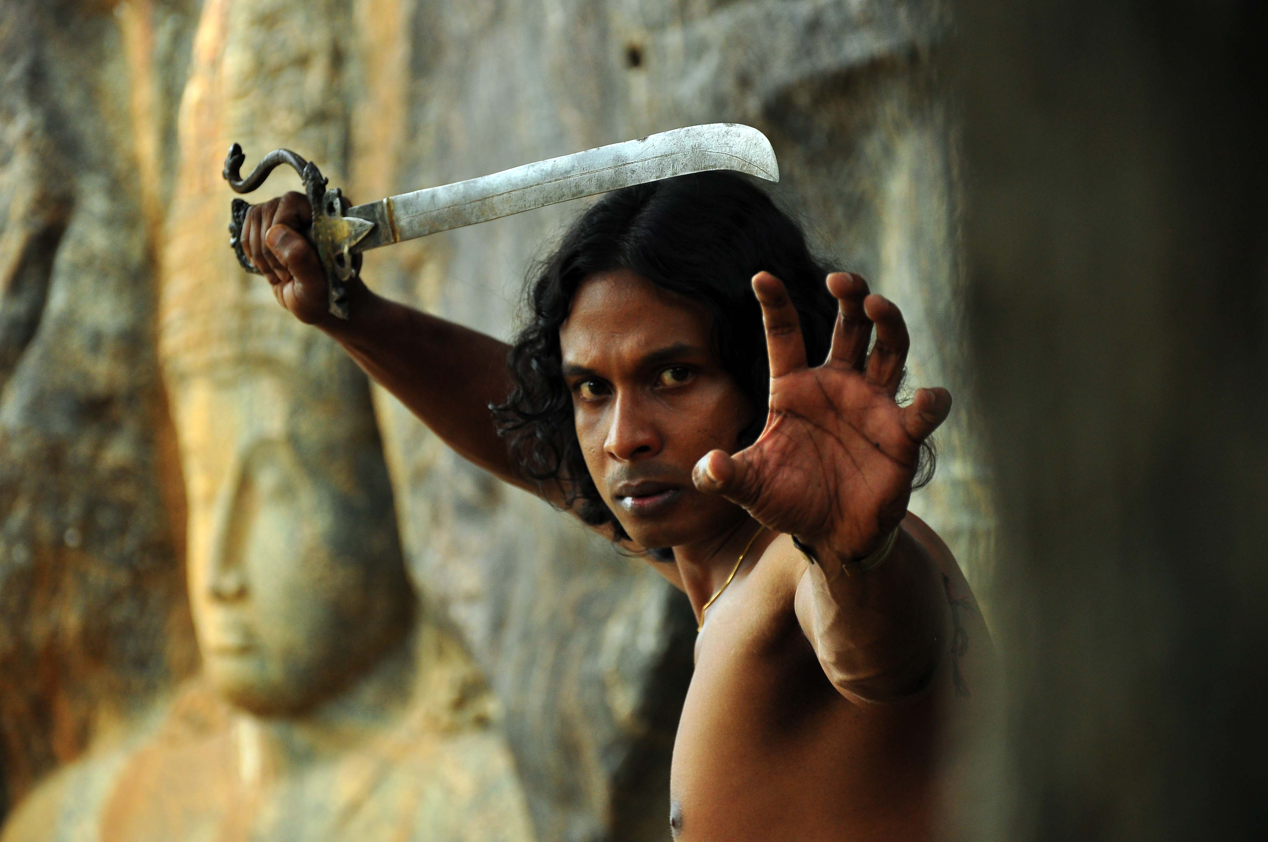 fight with weapons (sword) in Angampora